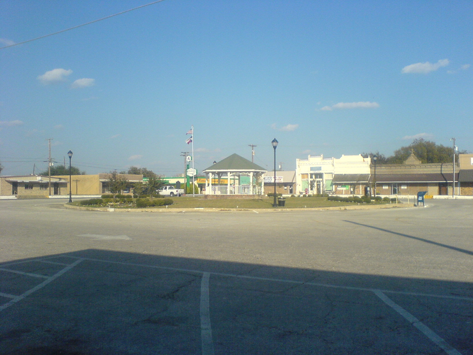 The Gazebo on the Alvarado downtown square. Photo by Danny Burton, 11/04/07.